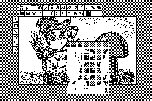 Smalltalk BitRectEditor